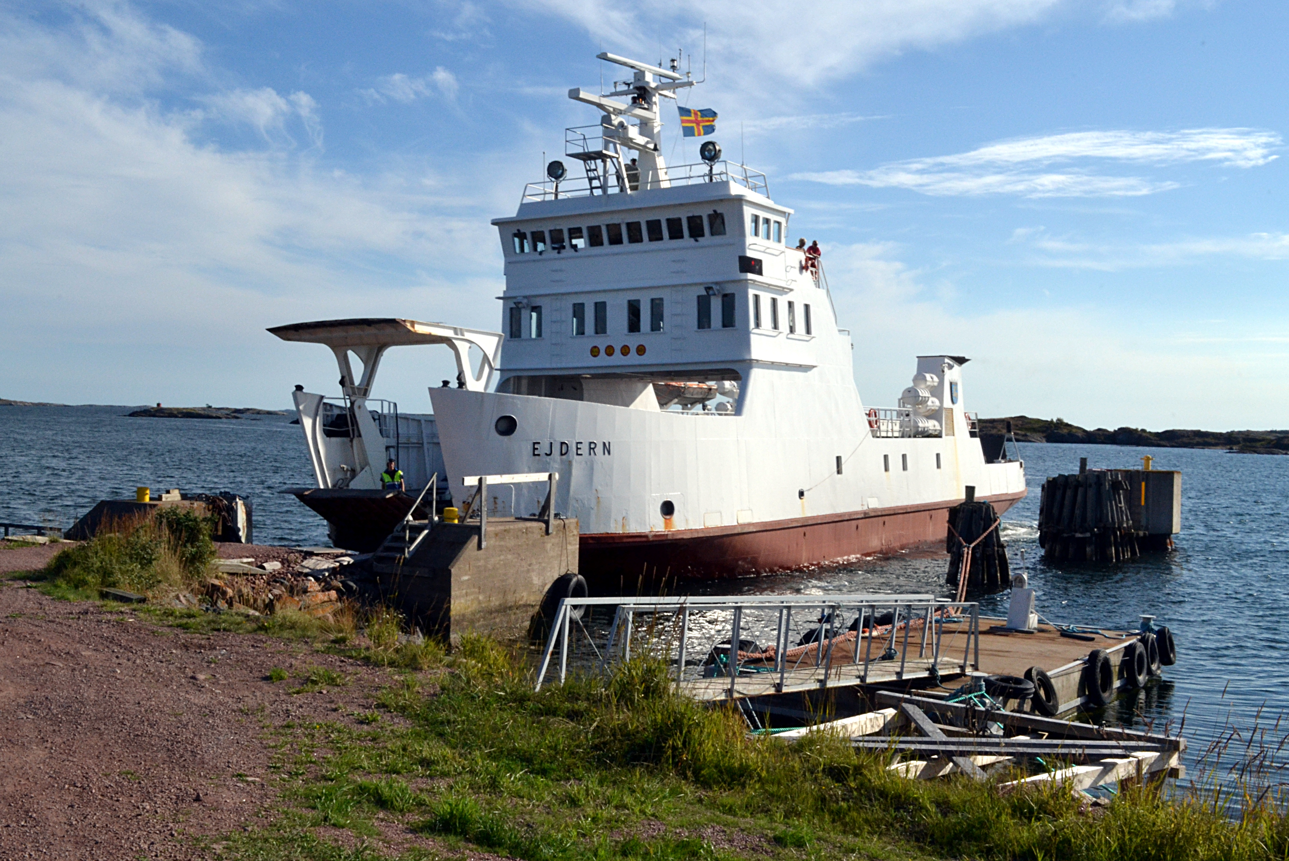 M/S Ejdern ferry in Kyrkogårdsö, Kökar, Åland, Finland